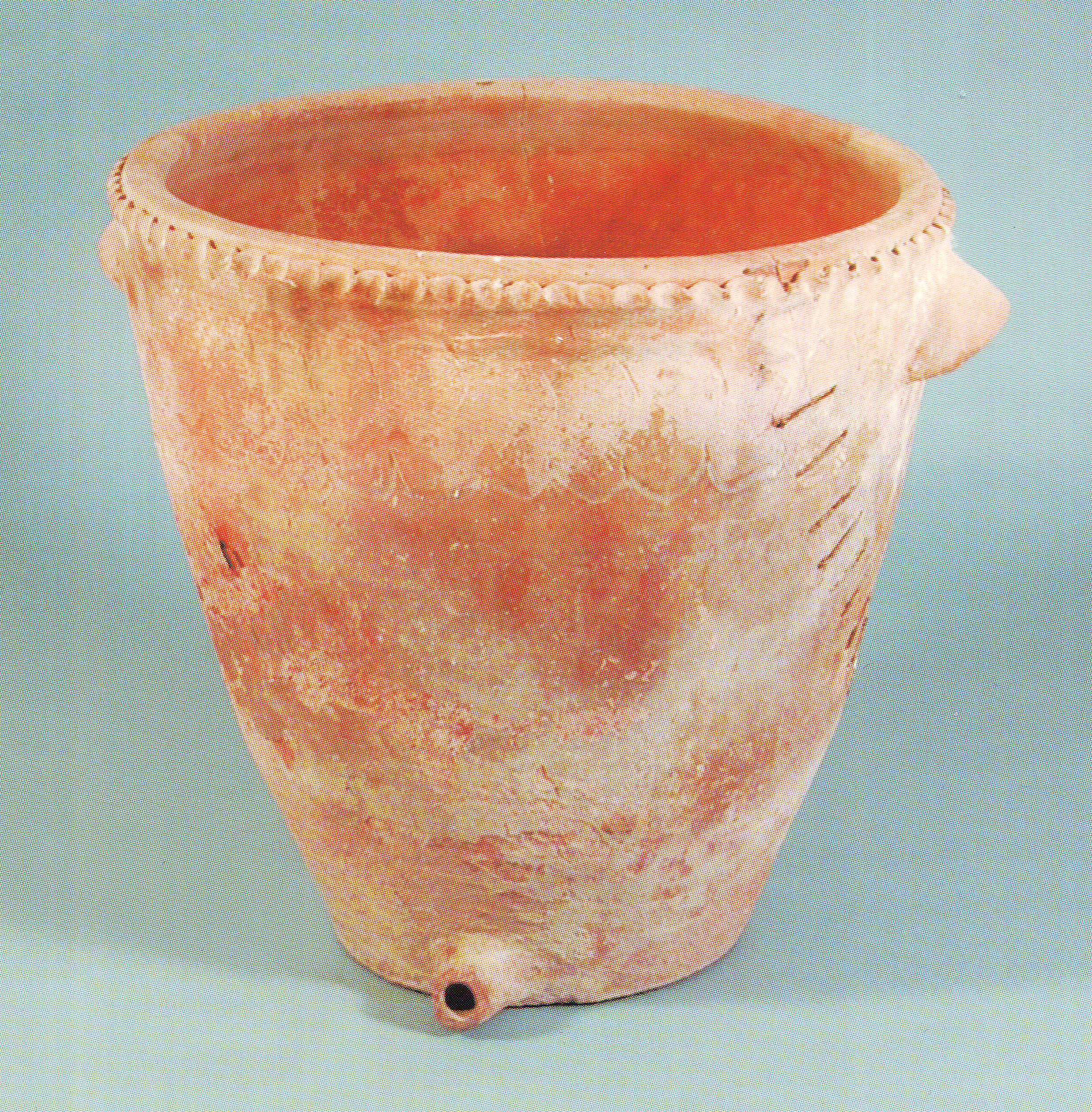 Cooked, large earthen jar or Inkwell. Great vessel similar to the jars, but more open mouth, flat base and stable, mouth decorated with fingerings, and two handles or ears facing each other; its distinguishing feature is the hole or drain spout. For different uses in processes of settlement (such as bleaching of linen with ash), hot water oil separation during pressing of the olives, etc.Size: 61 cm in height with two diameters: 59 cm (mouth) and 31 cm (base). Factory of the 19th century and origin unknown within the Spanish territory. Acquired by Diego Agulo, researcher and Professor, specialist in the works of Bartolomé Esteban Murillo, bound for the reproduction of the Casa de Murillo in Seville. Transferred to the Museo de Artes y Costumbres Populares de Sevilla. (documentation: 'Belly of mud'. MACPS. Junta de Andalucía. 2001 ISBN 8482662562)